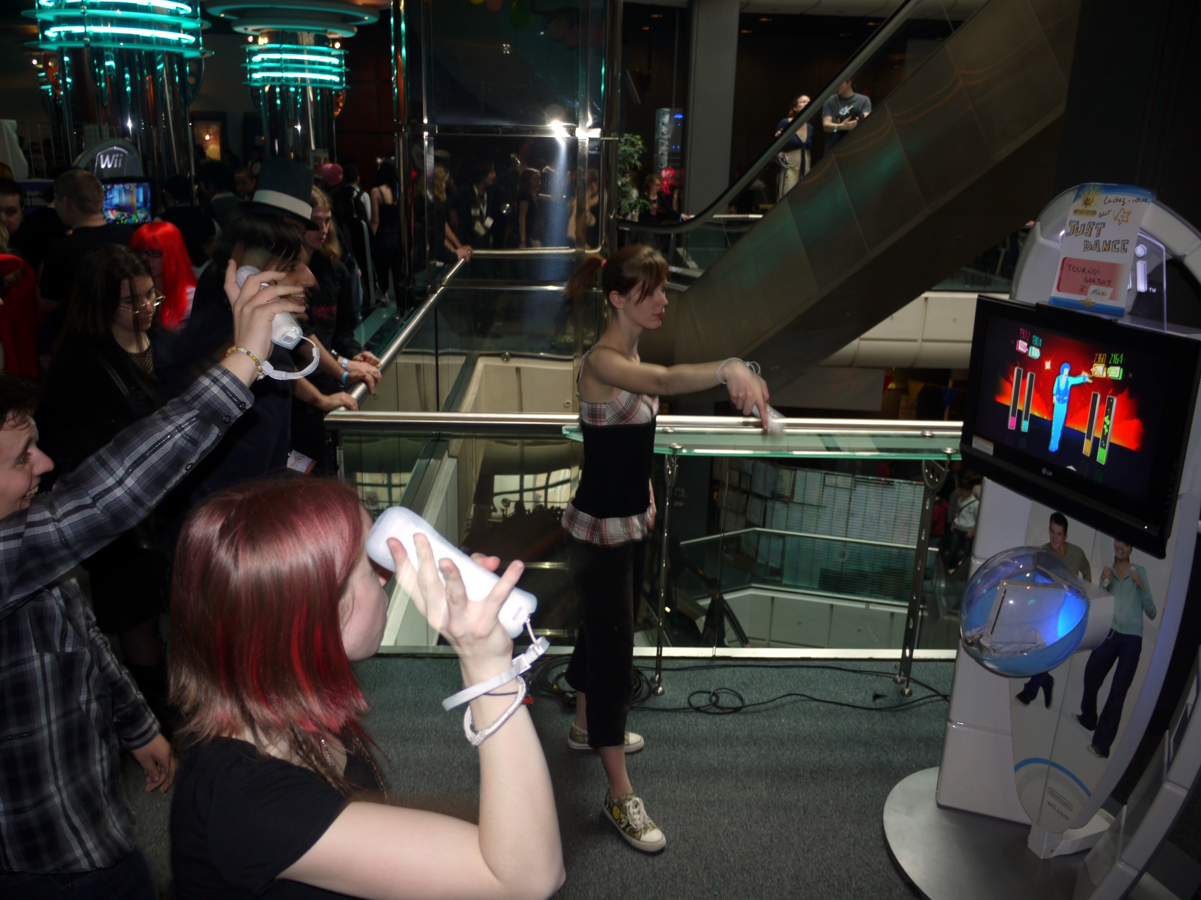 Mang'Azur festival of Toulon - official site